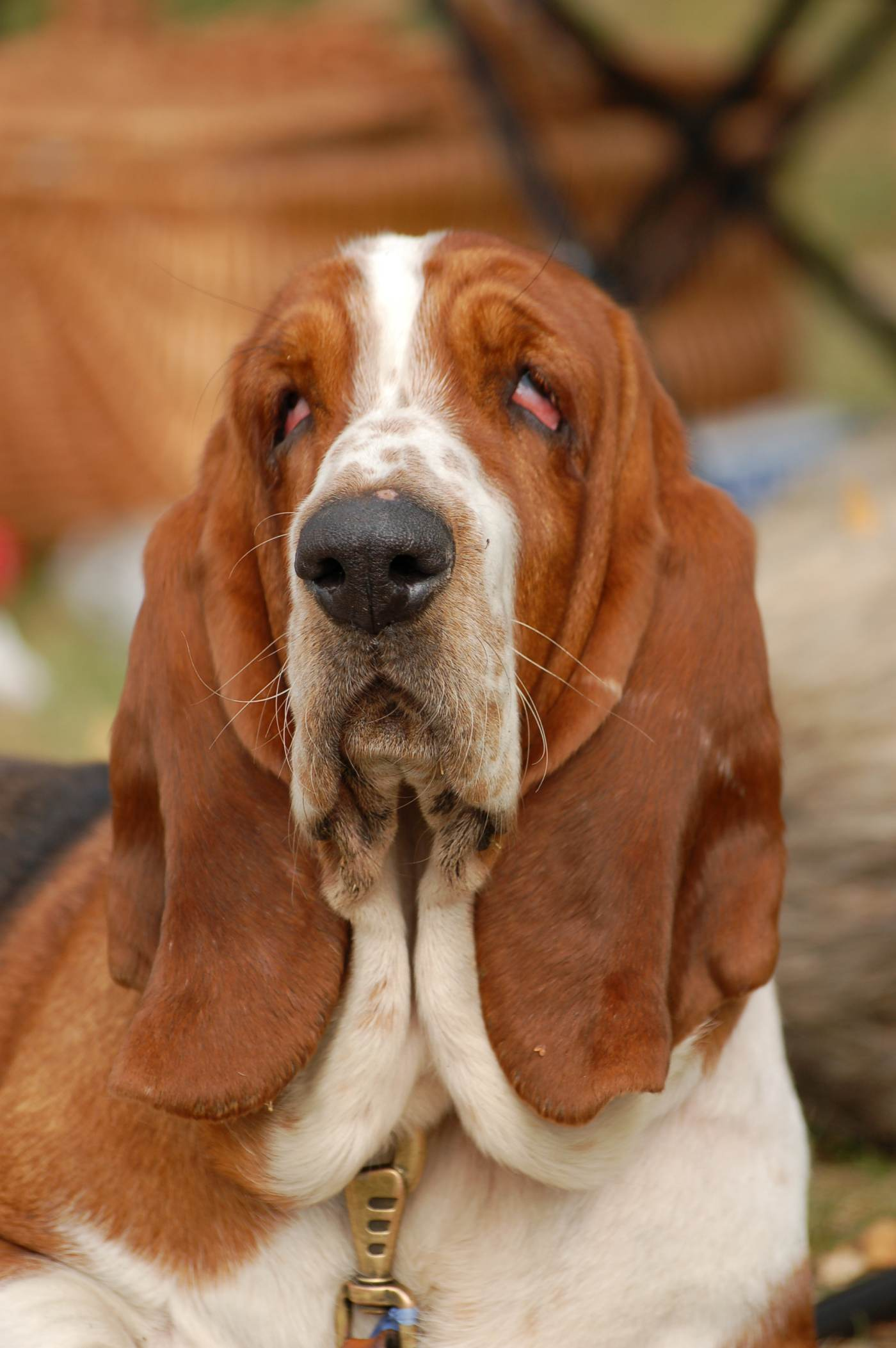 Micromelic dwarfism (in the absence of other forms of dwarfism) makes a dog short-legged as opposed to the small-all-over form created by Category:Dogs with ateliotic pituitary dwarfism